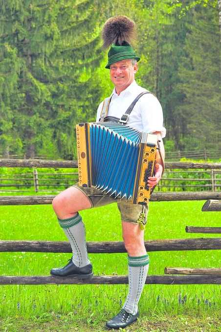 Hermann Huber